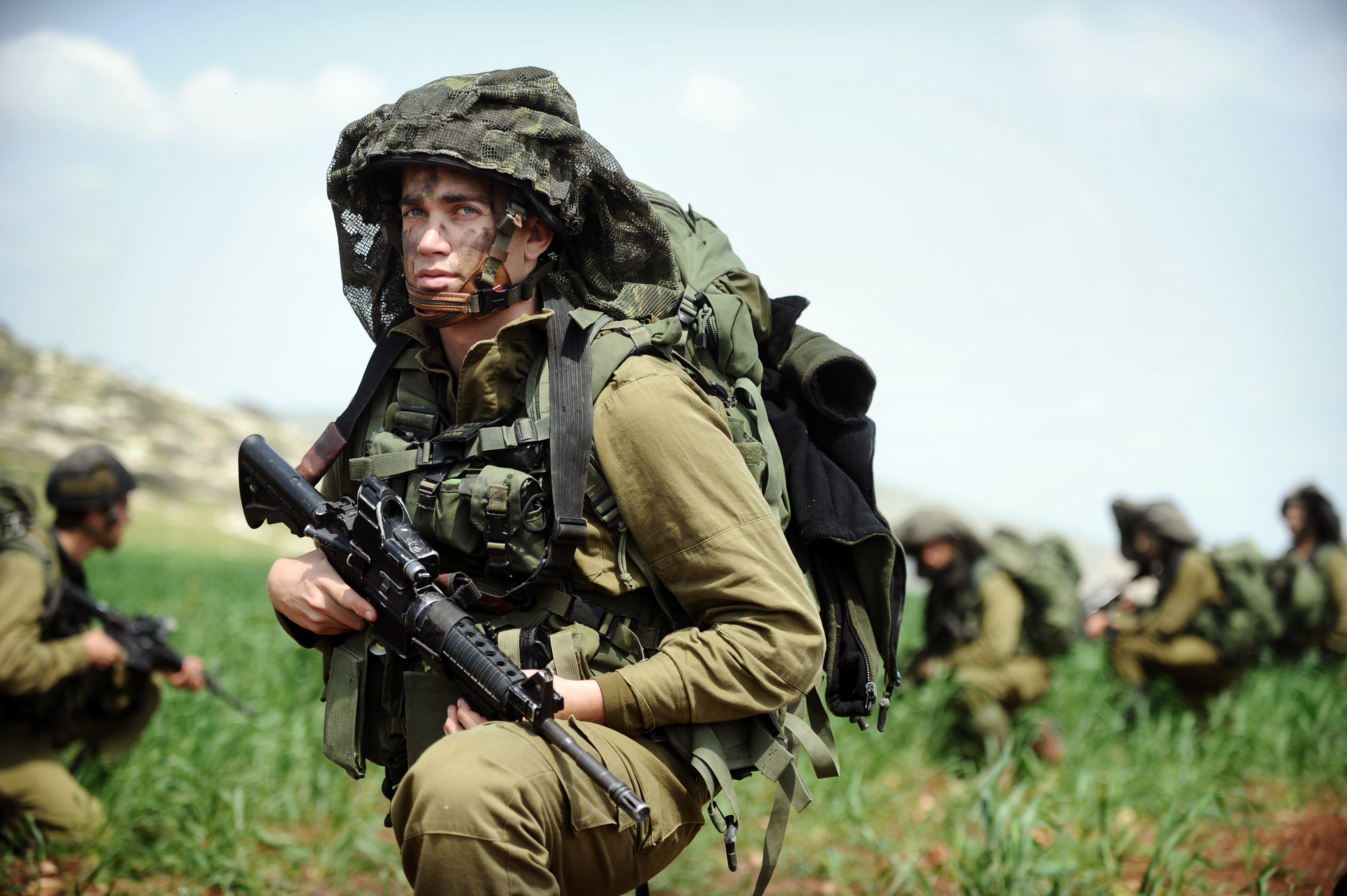 Soldiers of the Kfir Brigade training in the Jordan Valley, March 2012. The Israel Defense Forces Facebook • blog • Twitter